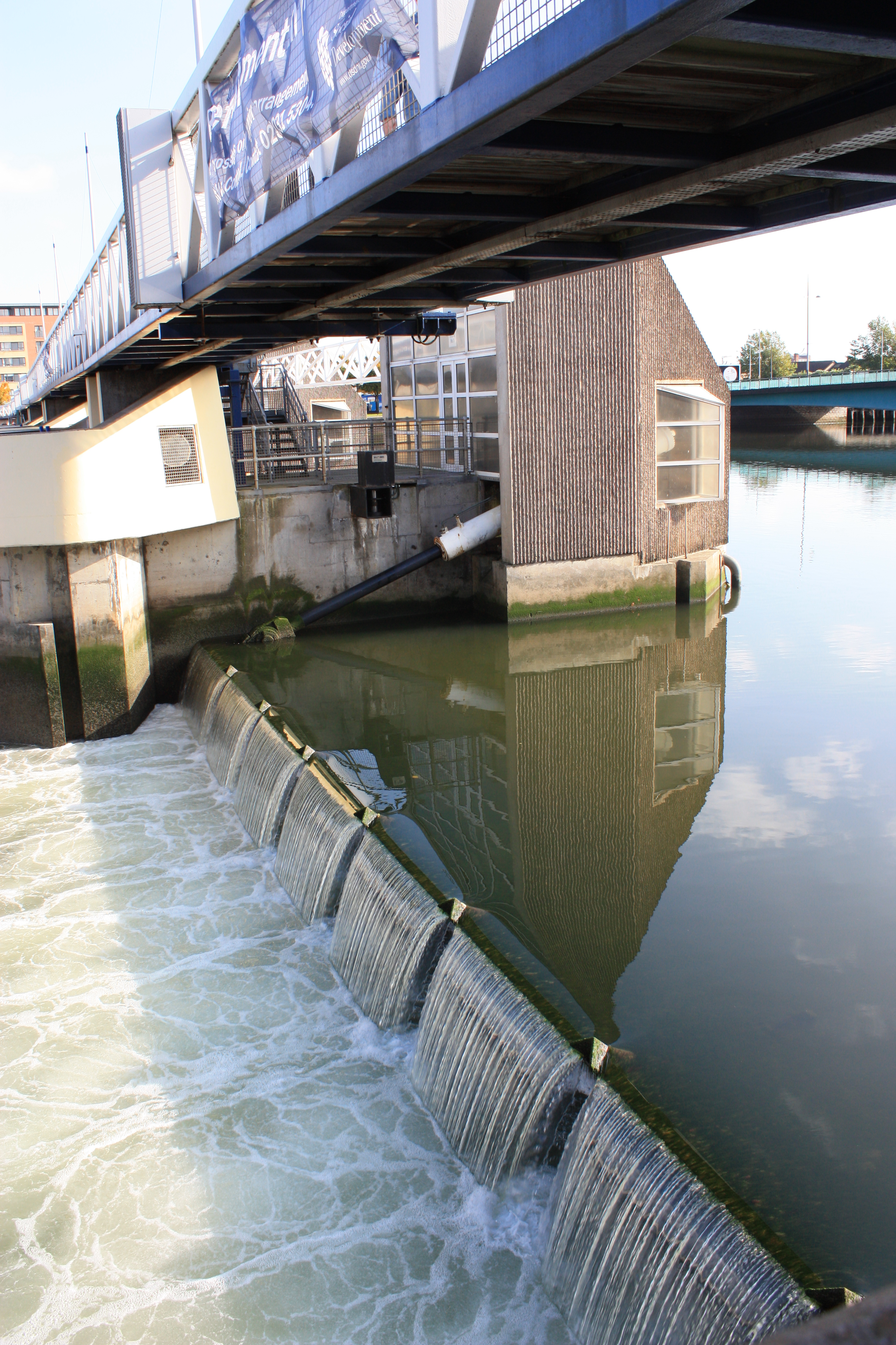 Lagan Weir, Donegall Quay, Belfast, Northern Ireland, October 2009